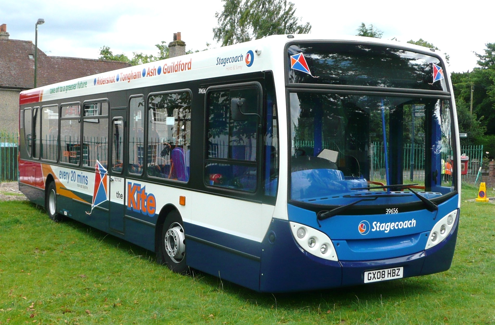 Stagecoach in Hants & Surrey 39656 (GX08 HBZ), a MAN 14.240/Alexander Dennis Enviro200 Dart, at the 2008 Alton bus rally at Anstey Park.